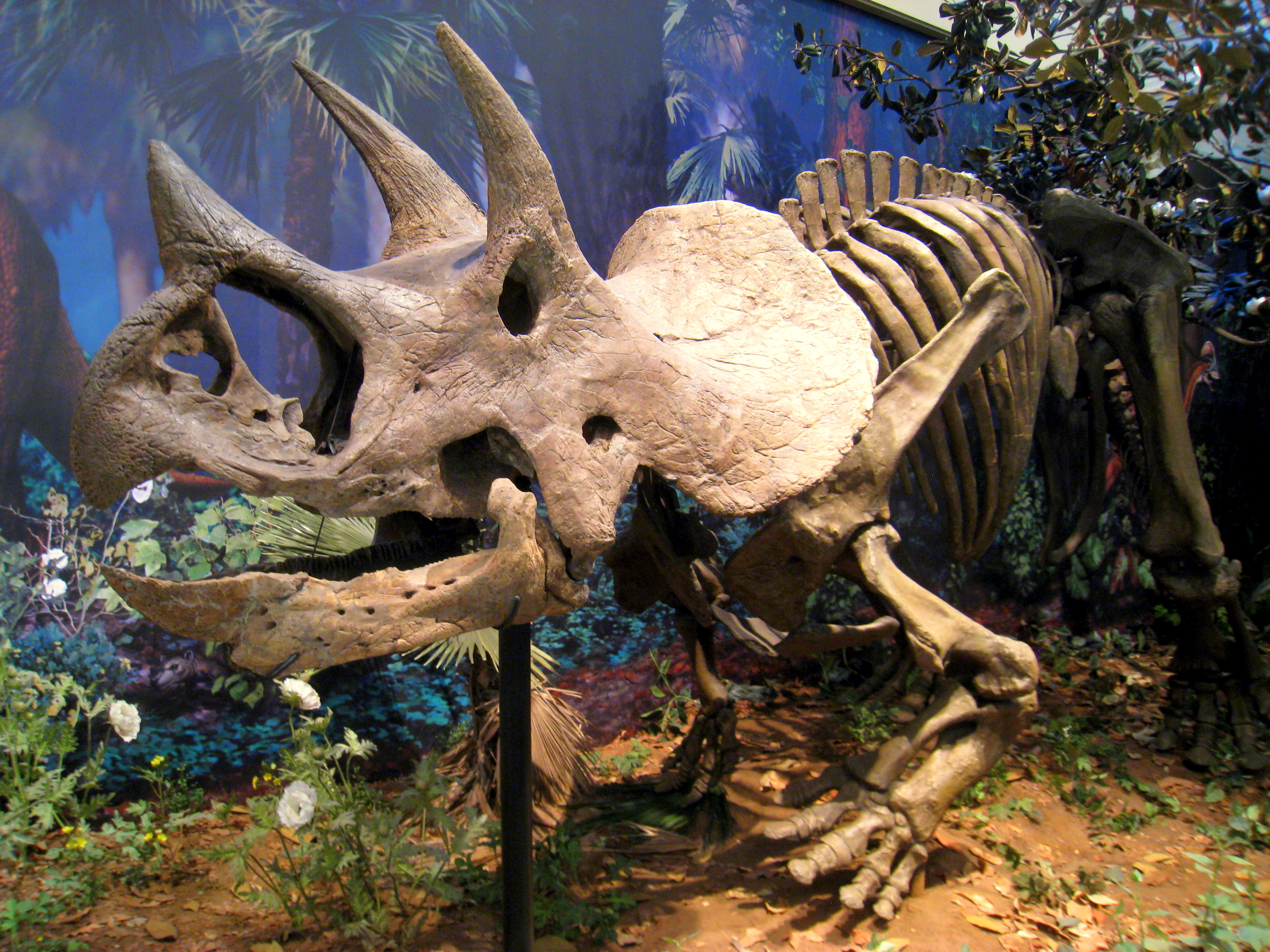 Triceratops prorsus, Carnegie Museum of Natural History, Pittsburgh, Pennsylvania, USA.